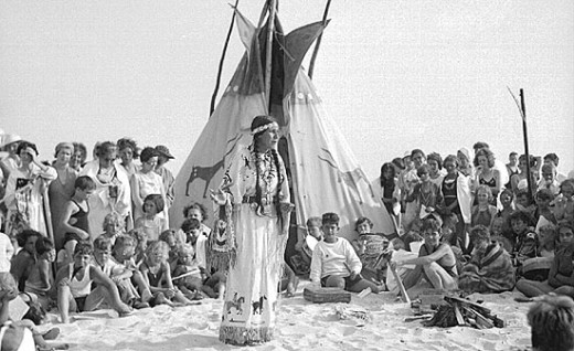 Rosebud Yellow Robe, Indian Village at Jones Beach, New York Other information No. This work is in the public domain because it was published in the United States between 1924 and 1963 and although there may or may not have been a copyright notice, the copyright was not renewed. Unless its author has been dead for the required period, it is copyrighted in the countries or areas that do not apply the rule of the shorter term for US works, such as Canada (50 pma), Mainland China (50 pma, not Hong Kong or Macao), Germany (70 pma), Mexico (100 pma), Switzerland (70 pma), and other countries with individual treaties. See Commons:Hirtle chart for further explanation.